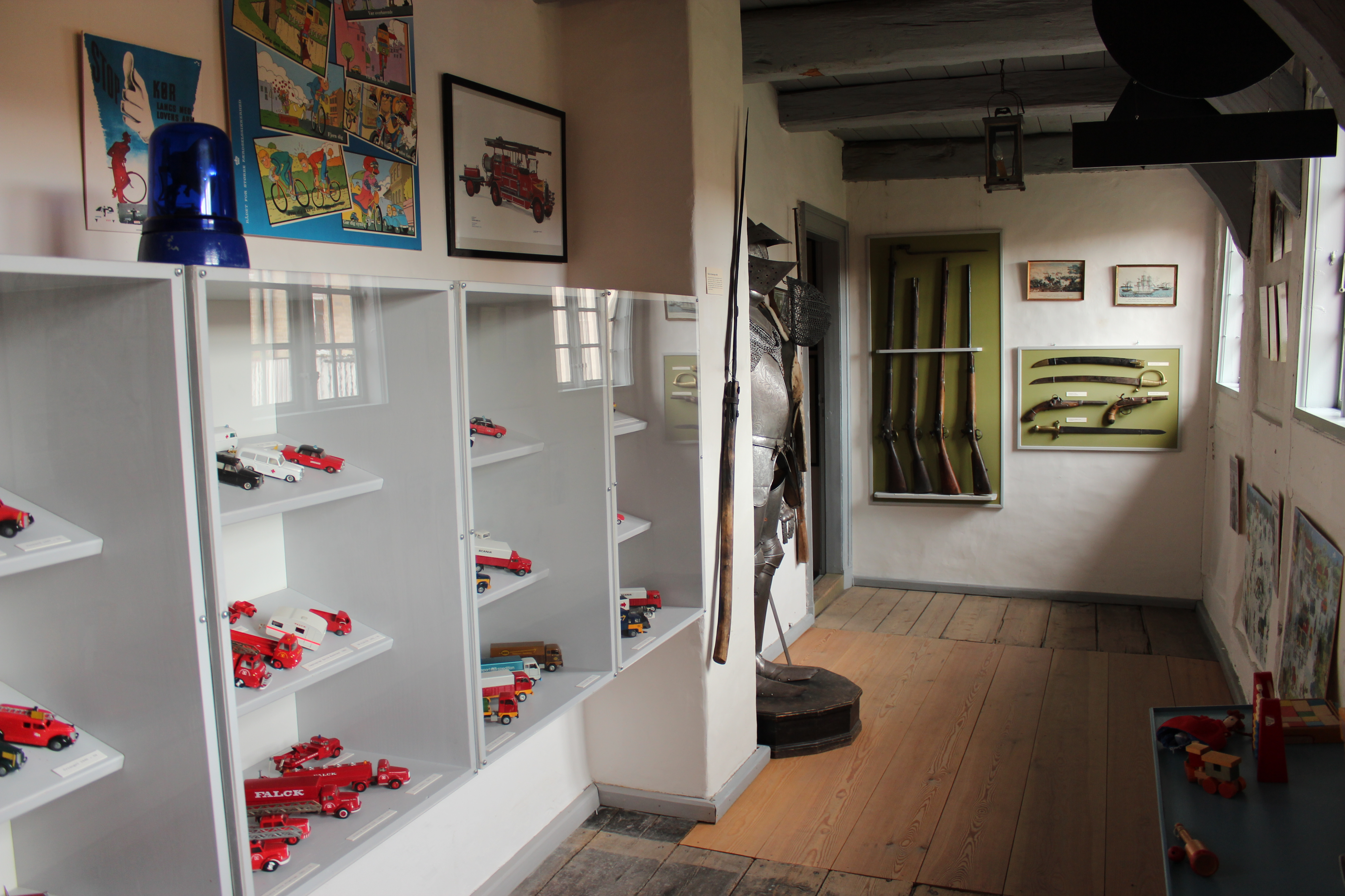 Exhibition at Farvergården in Kerteminde, Funen, Denmark